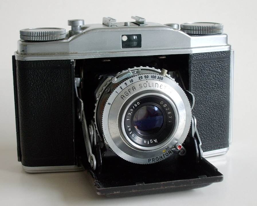 Agfa Solinette - Viewfinder folding camera for 135 film. Manual exposure control. Lens: Agfa Apotar f1:3,5/50mm. Prontor shutter.